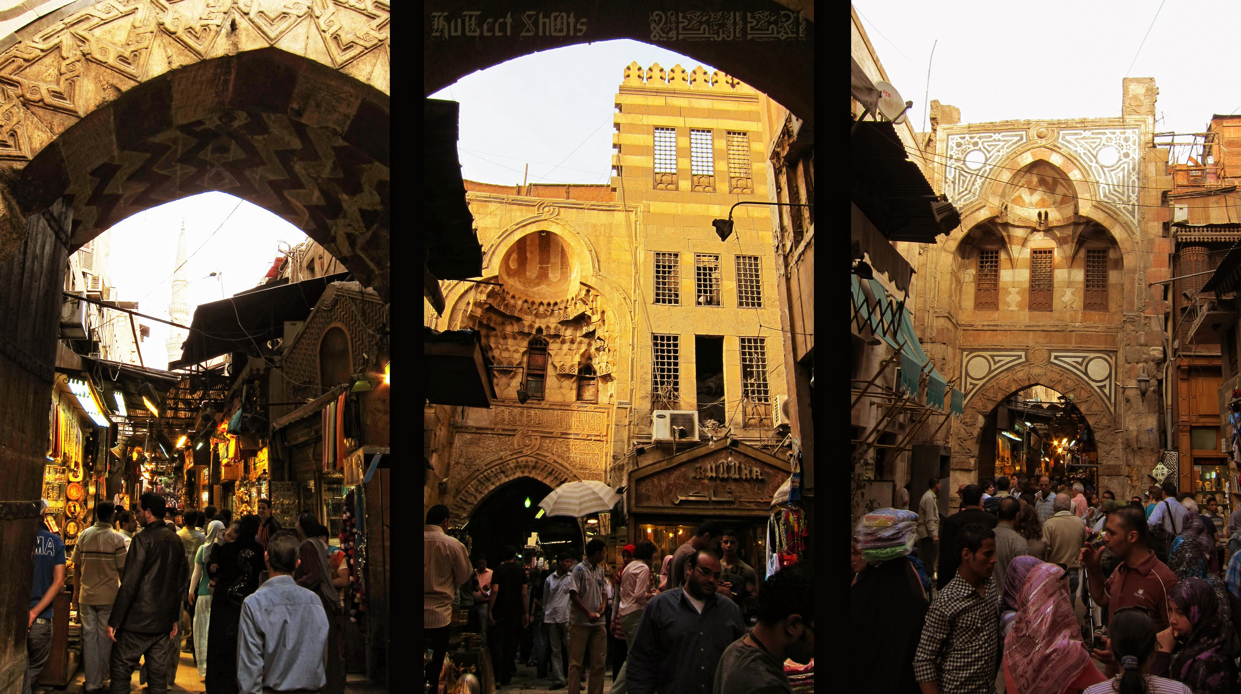 Khan el-Khalili (Arabic: خان الخليلي) is a major souk in the Islamic district of Cairo. The bazaar district is one of Cairo's main attractions for tourists and Egyptians alike. More.